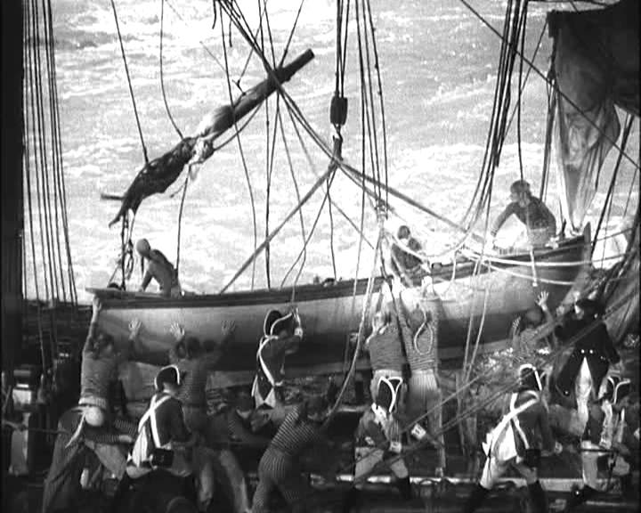 Screenshot from the trailer for the film Mutiny on the Bounty.